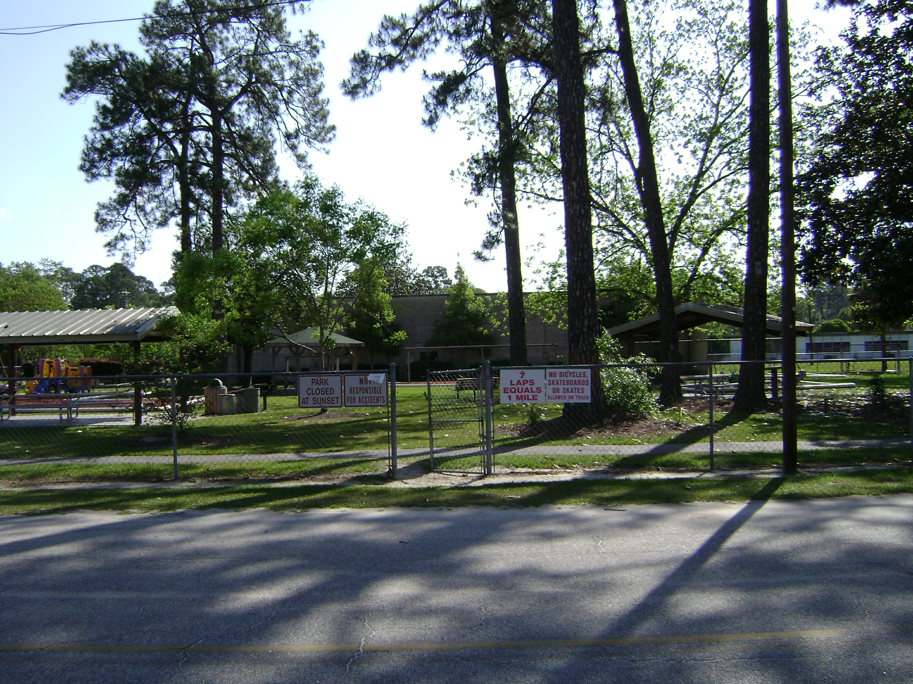 Adel City Park on S. Parrish Street, Adel, Georgia